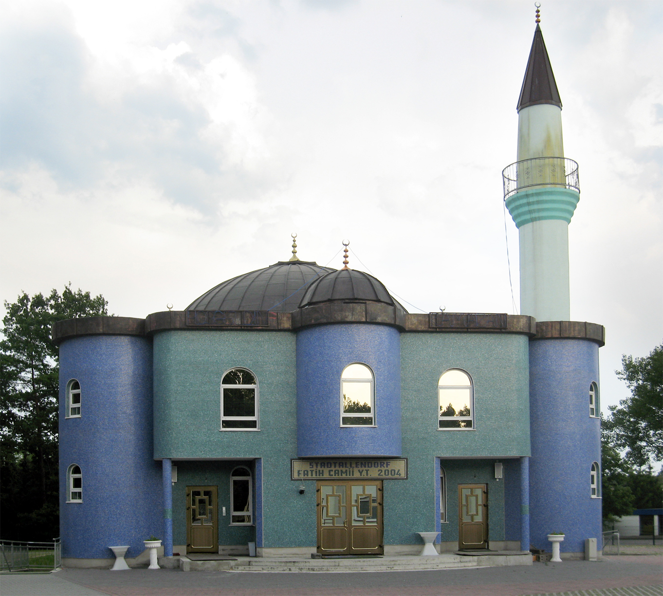 The Mosque Camii of Stadtallendorf